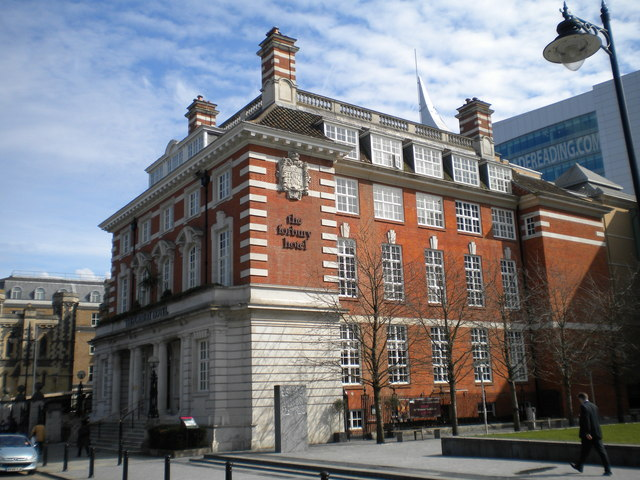 The Forbury Hotel, The Forbury, Reading